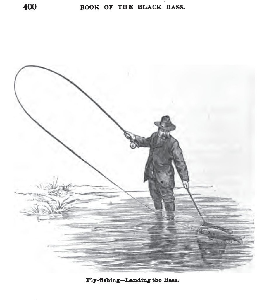 Fly Fishing - Landing the Bass from Book of the Black Bass, James A. Henshall M.D., 1881